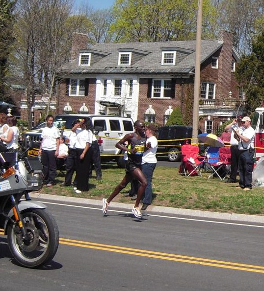 Kenyan runner Levy Matebo at Heartbreak Hill during the 2012 Boston Marathon. This photo is licensed under a Creative Commons license. Please credit Rob Larsen with a link to , if you use this photo anywhere. Thanks.